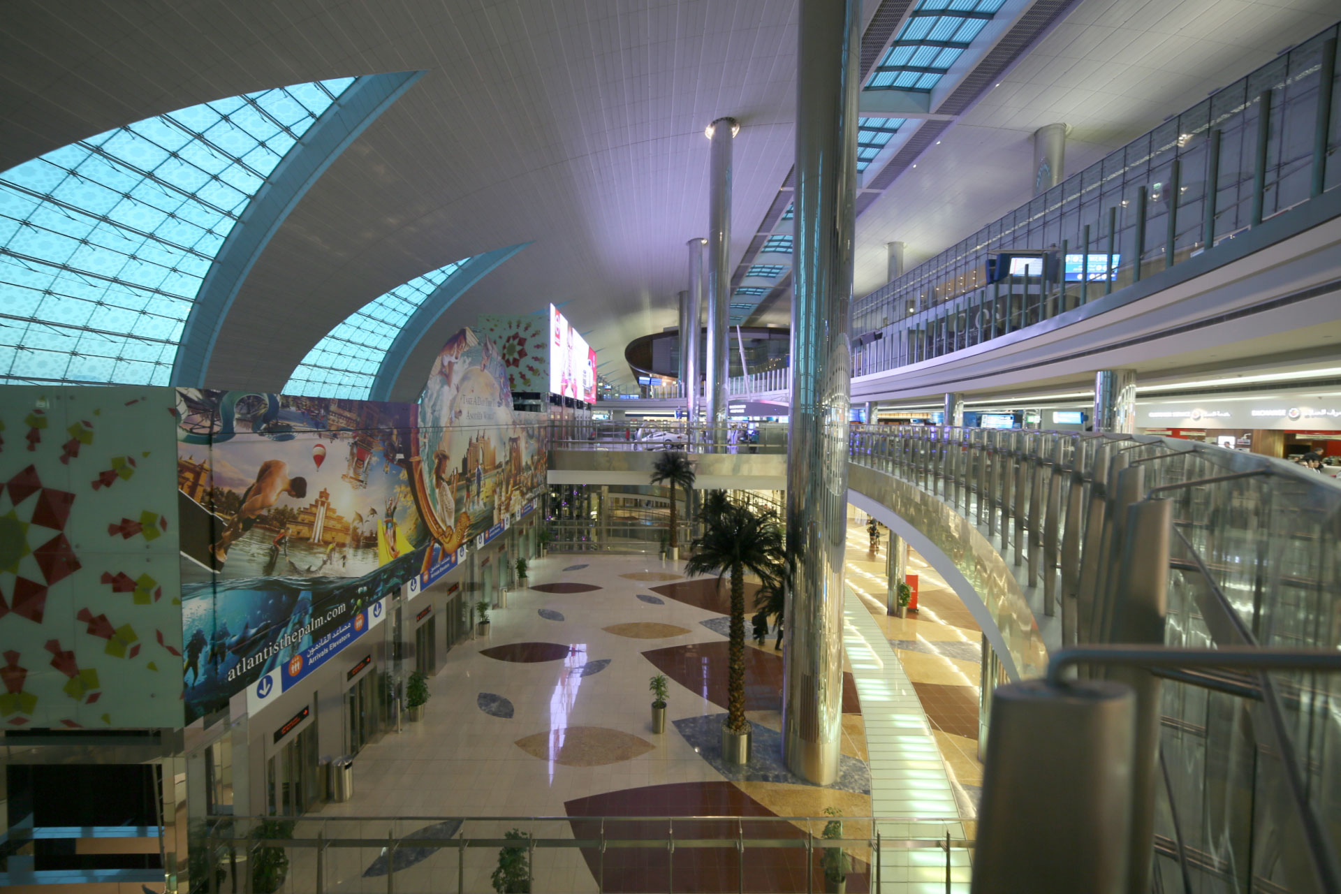 Dubai Airport Terminal 3 in early morning